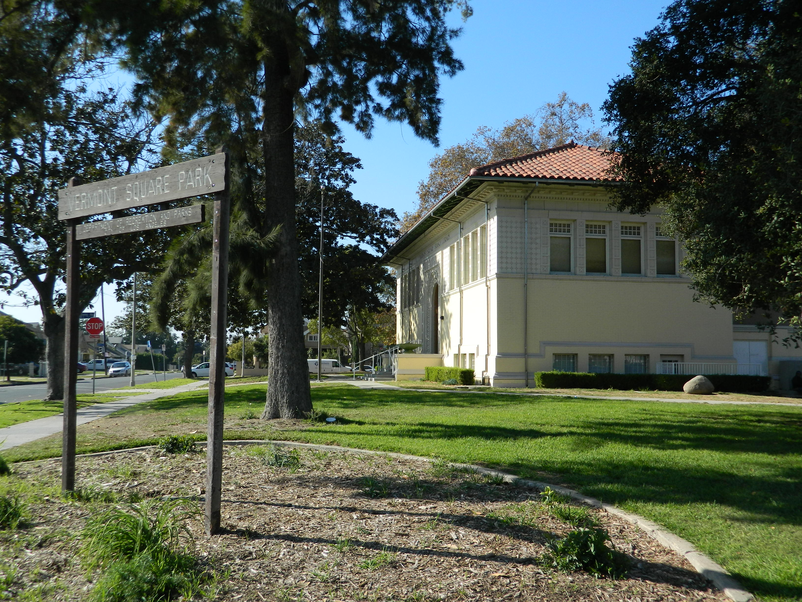 Oldest branch library in Los Angeles system (see :Category:Carnegie libraries in the United States and :Category:Images of Los Angeles)